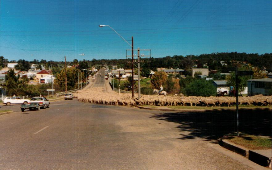 Drovers taking sheep through Warialda. The sheep are turning from Long Street in to Stephen Street and going across Warialda Creek into the centre of town. This picture was taken by Blarneytherinosaur in the early 1990's